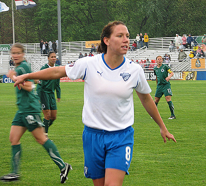 Lauren Cheney of the (WPS) Womens Professional Soccer Club, Boston Breakers.